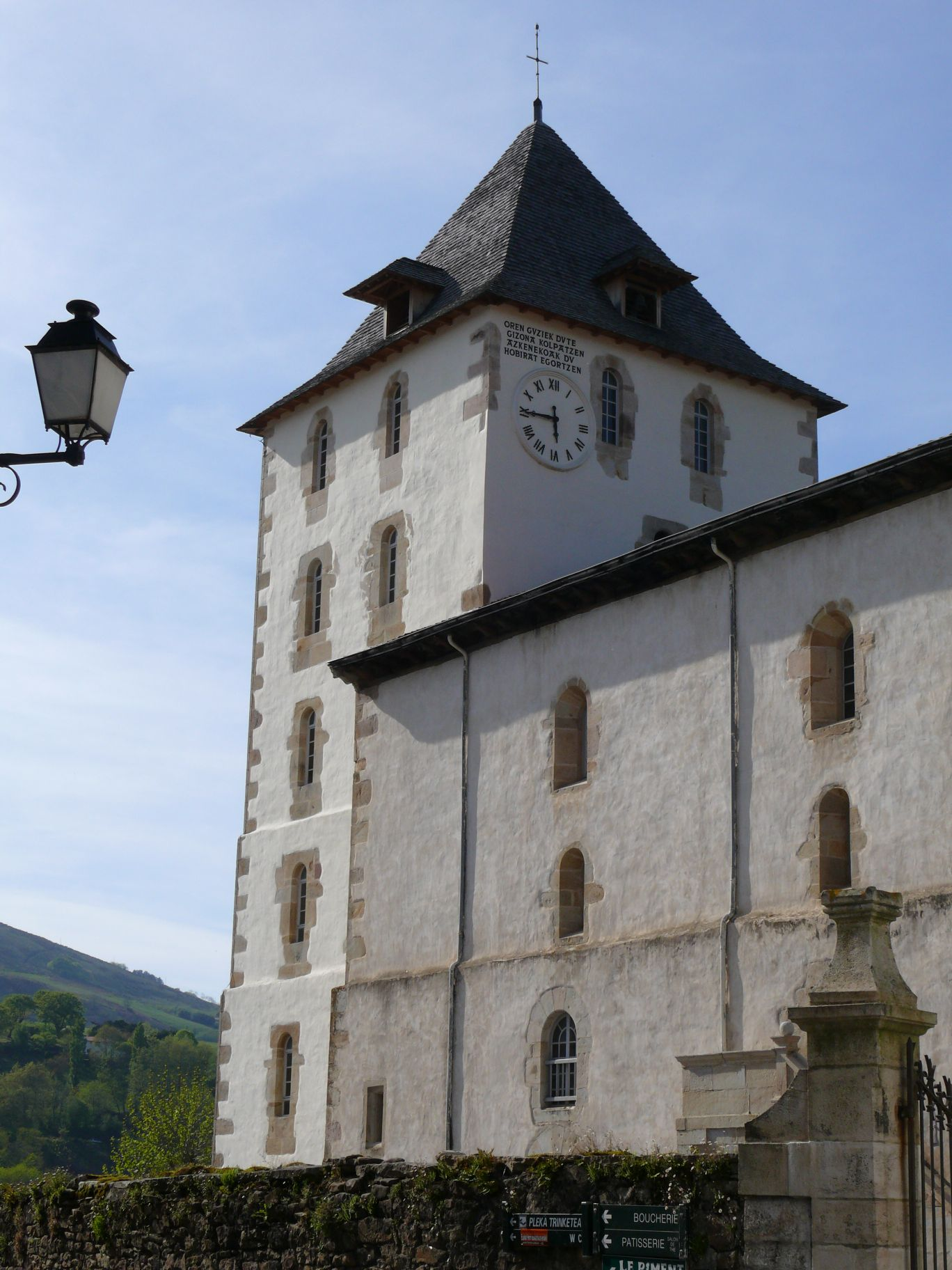 Saint-Martin's church of Sare (Pyrénées-Atlantiques, Aquitaine, France).